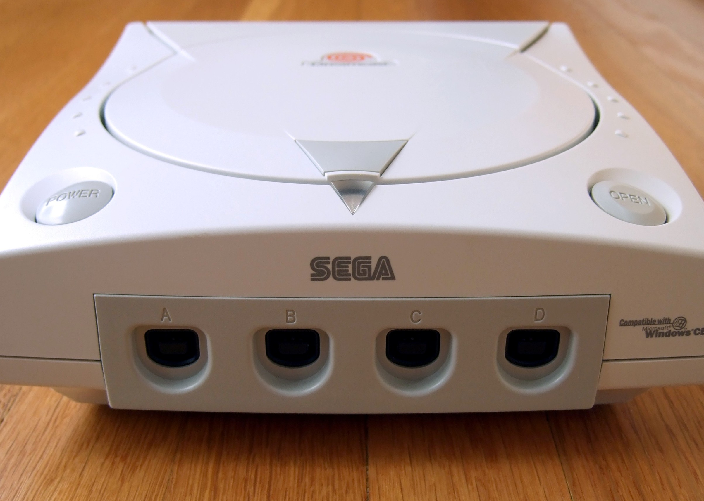 Sega Dreamcast (front)